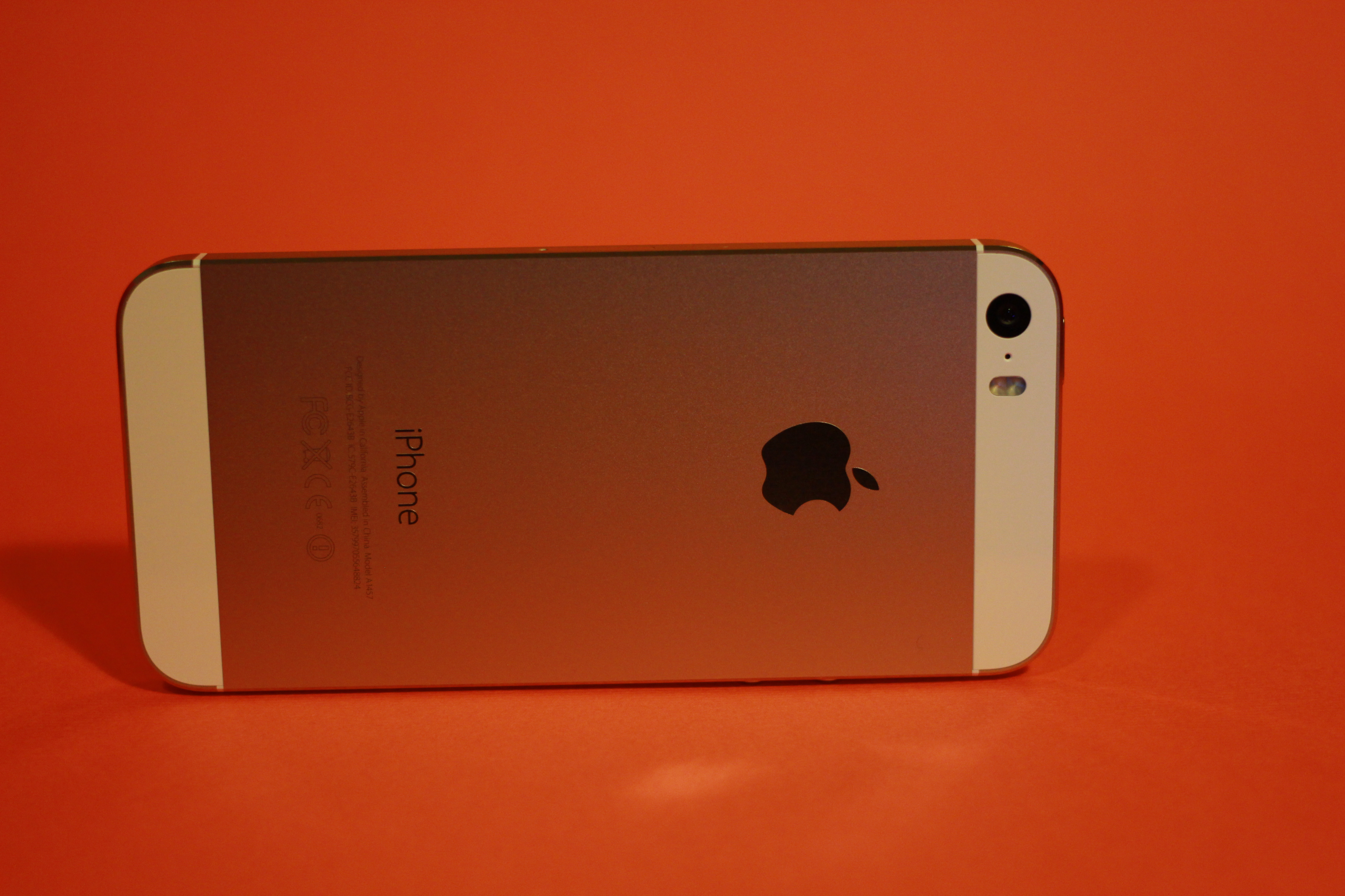 Apple iPhone 5s